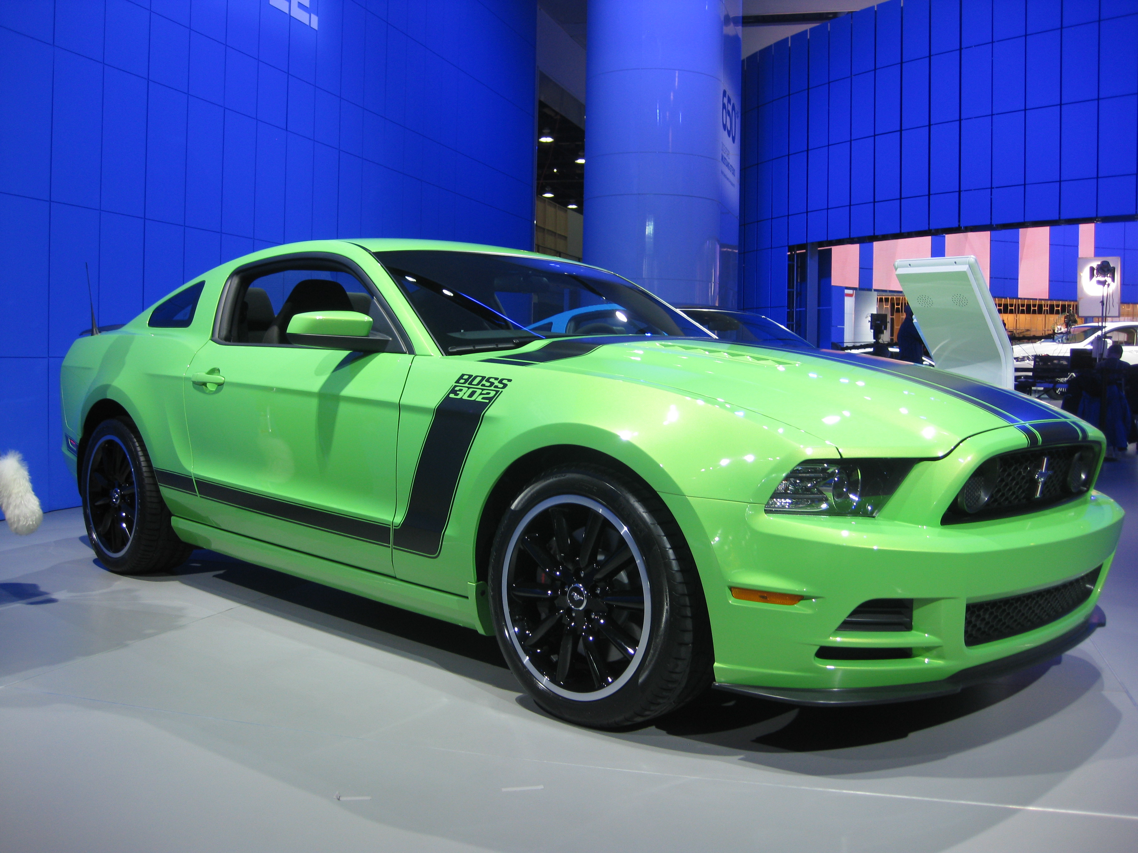 For more info and images please check